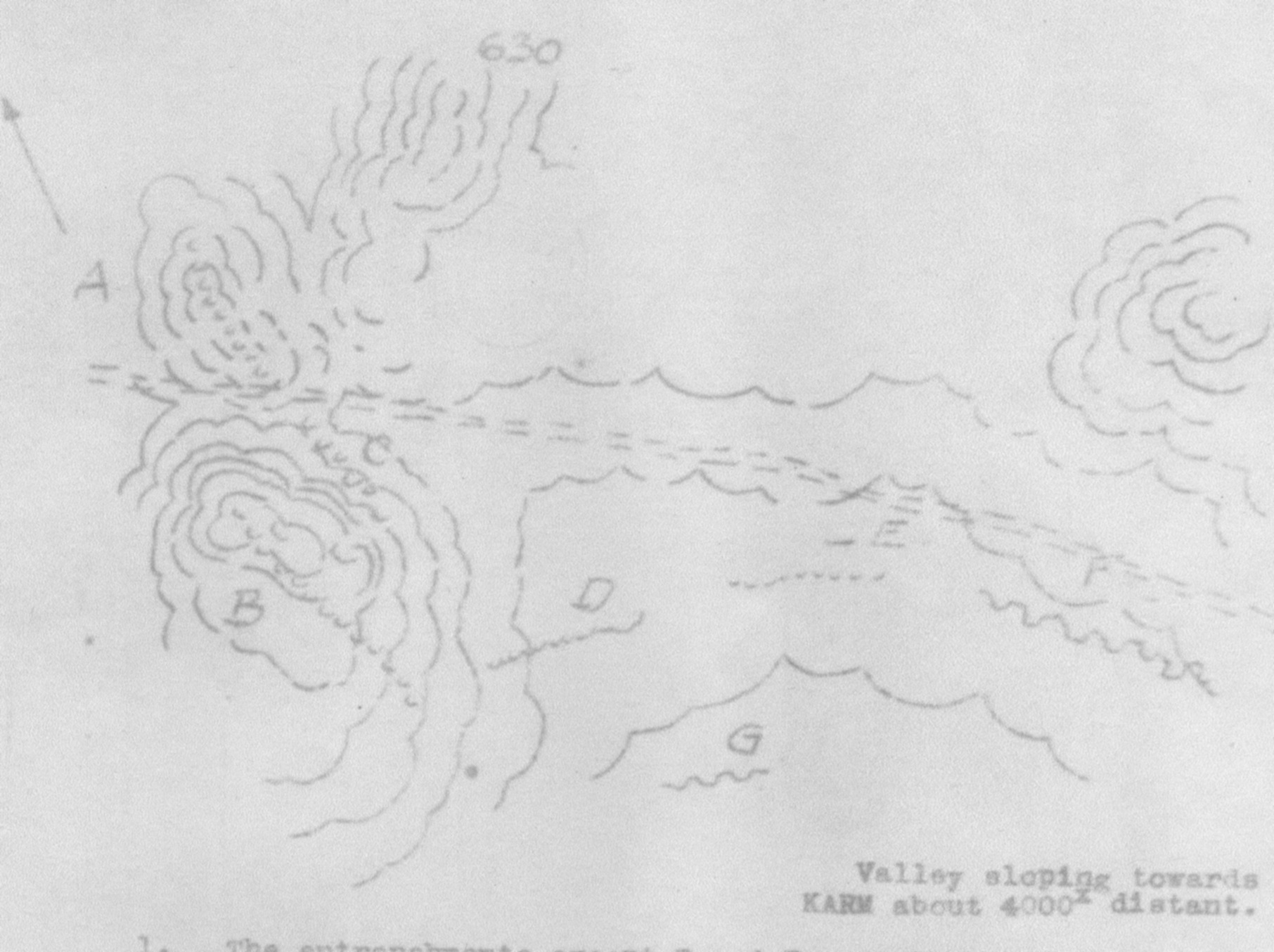 Sketch Map of Ottoman positions on 19 July 1917 Other information Army War Diary - government documents